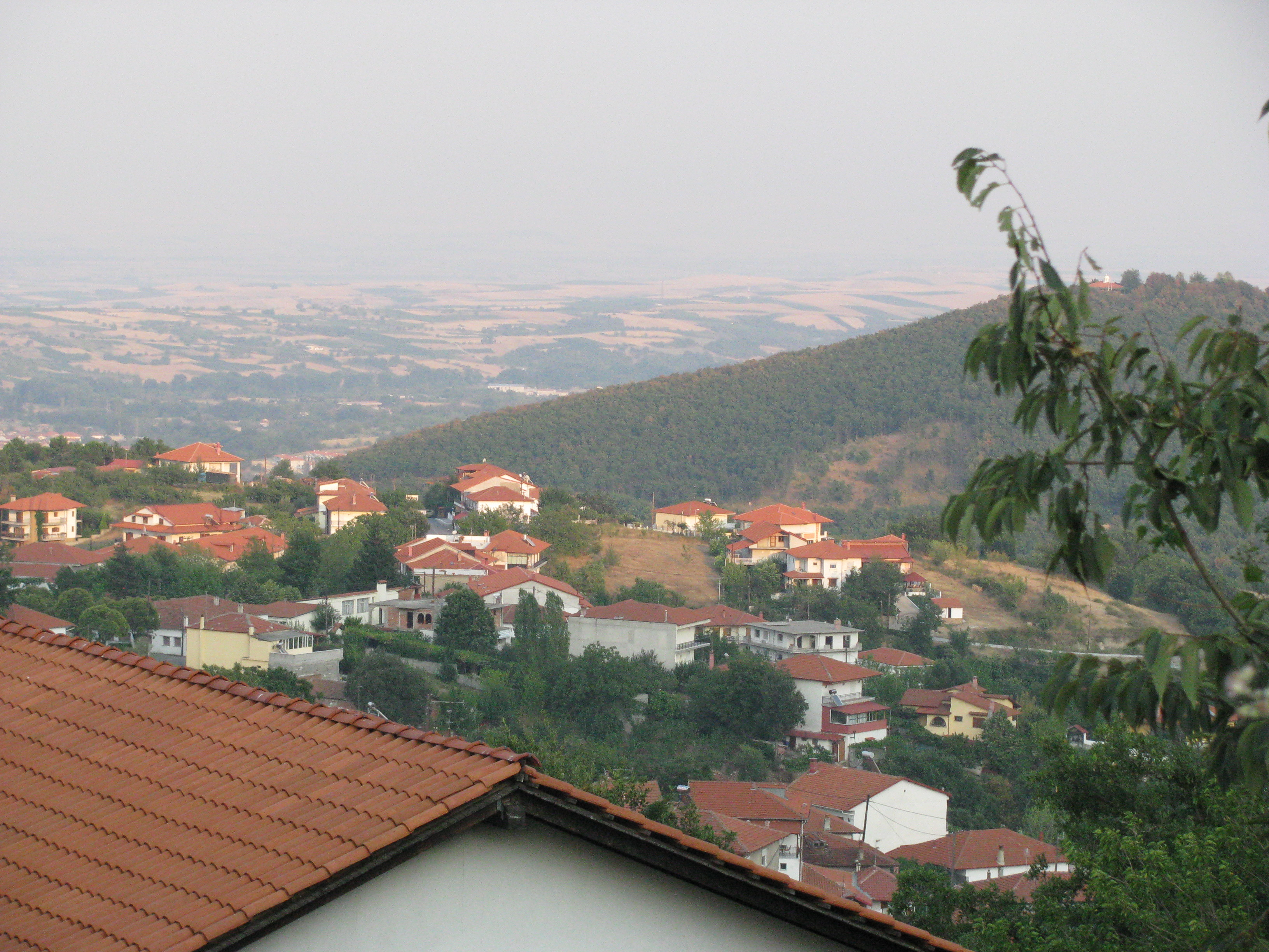 Village of Kriva, Kilkis prefecture, Greece